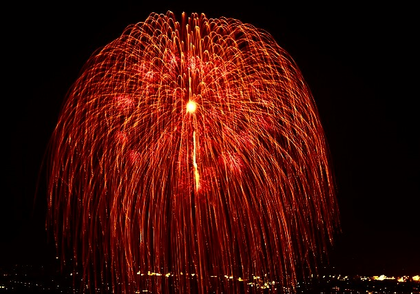 Un fuoco sparato durante la festa patronale.